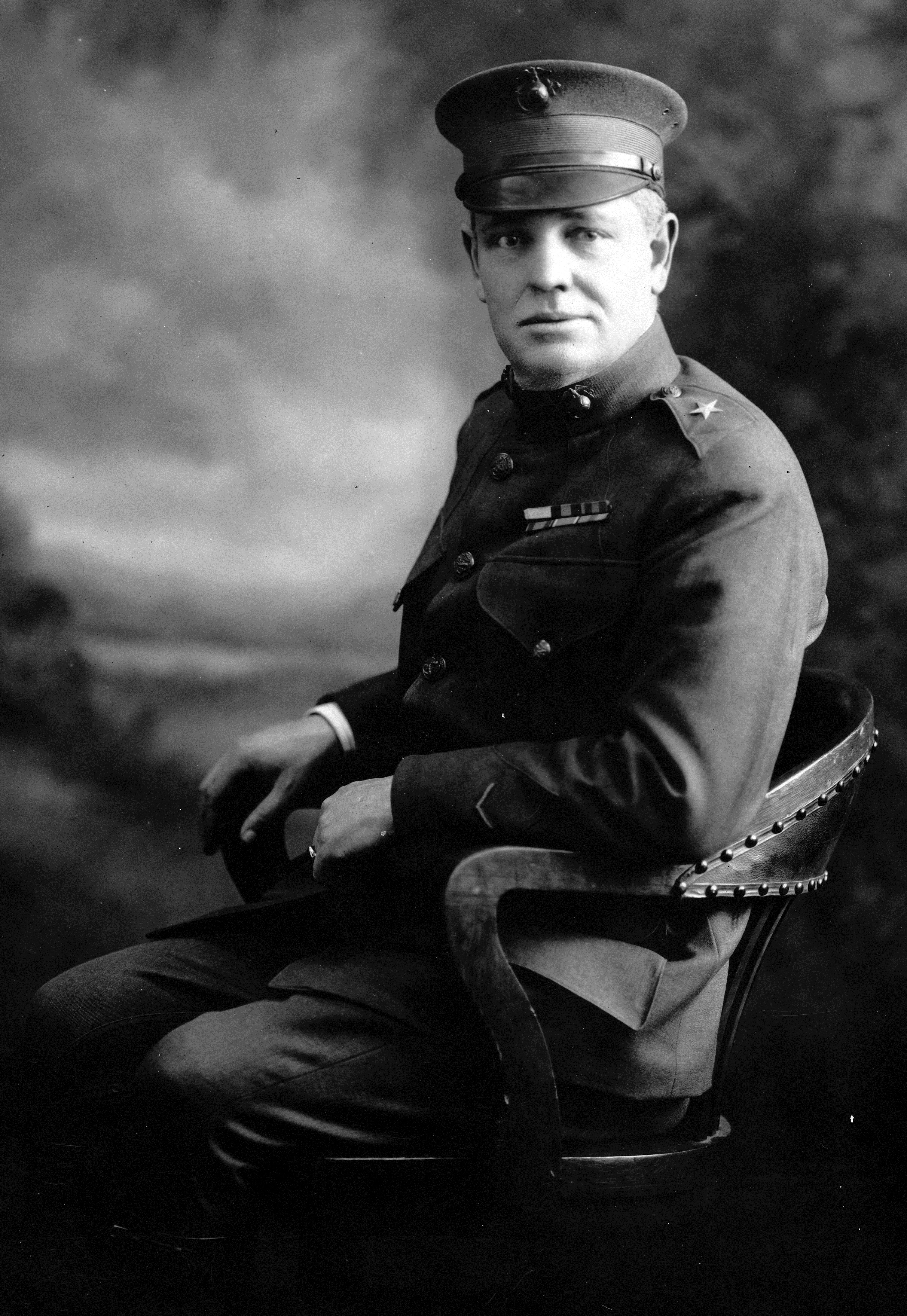 Brigadier General Albertus W. Catlin, United States Marine Corps; Medal of Honor recipient Author: United States Marine Corps URL: Note: Original .tif converted to .jpg for use here.